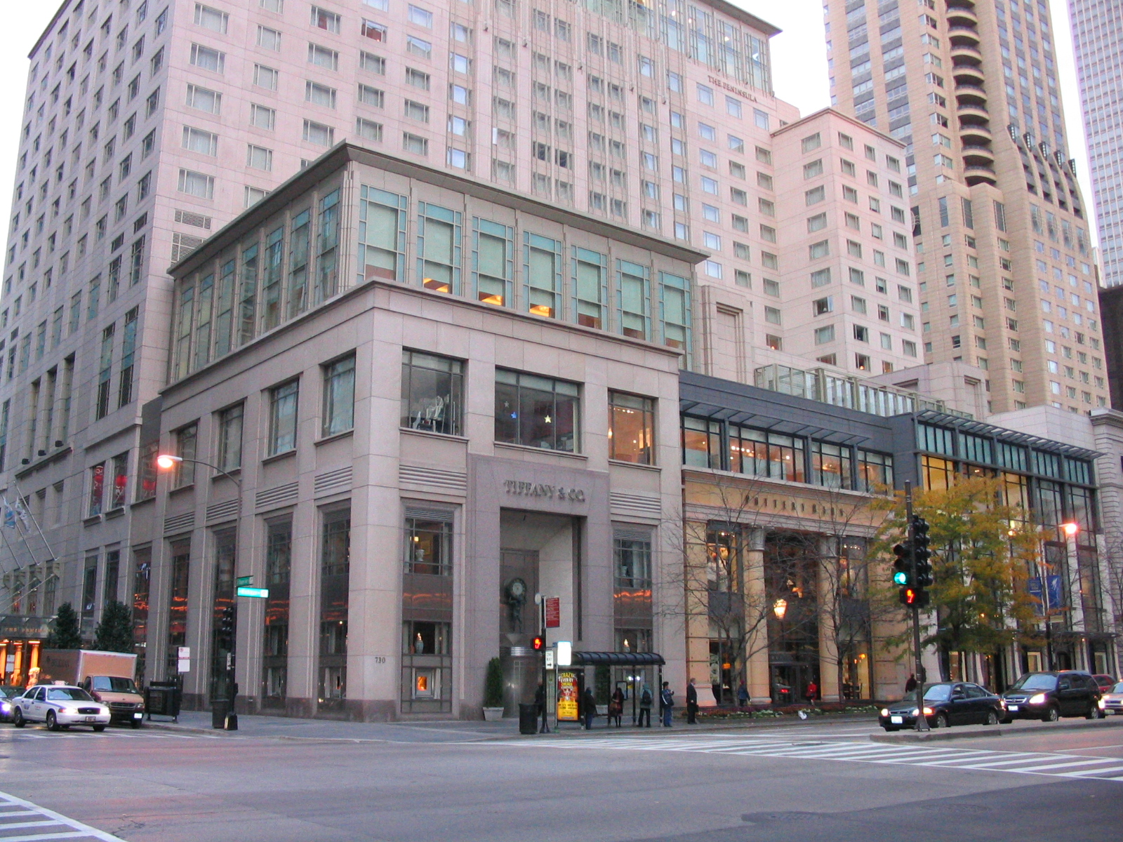 NW corner, approx. 730+ N. Michigan Ave. at E. Superior St., Chicago. Front: Tiffany & Co. (730 N.), Pottery Barn (734 N.). Background: The Peninsula Chicago, a luxury hotel.